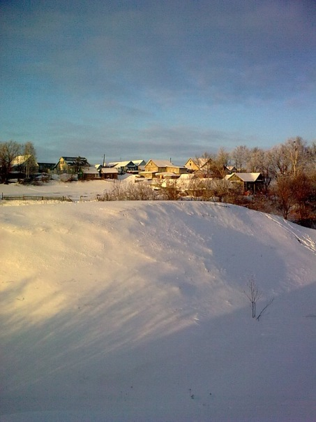 Iske Chechqab